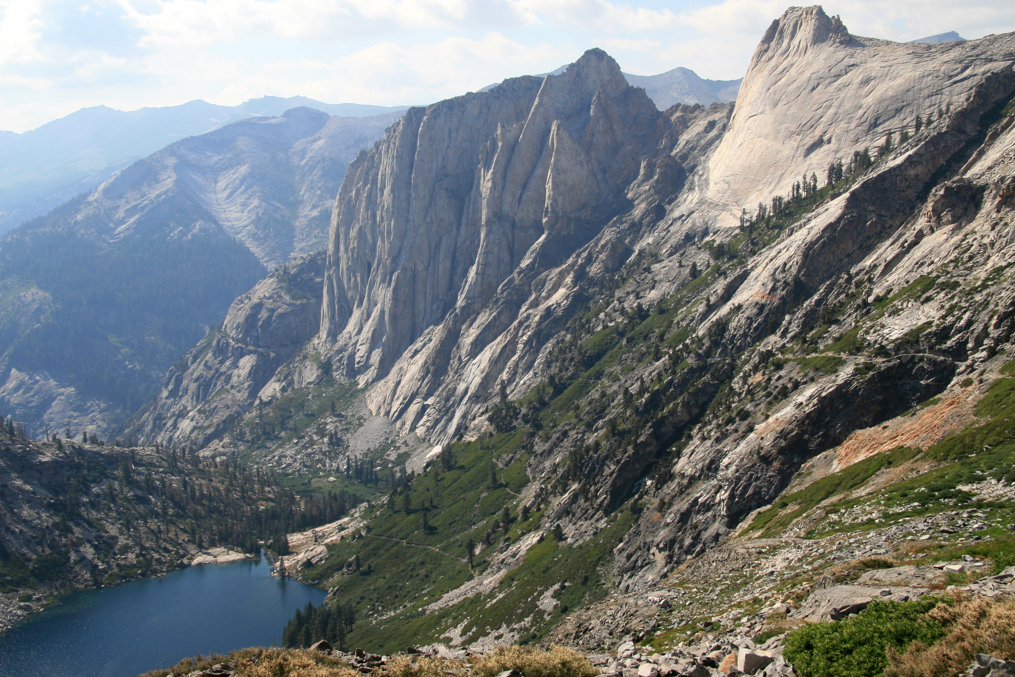 View looking down valley from the bowl under Kaweah Gap, Sequoia National Park, California. Shows Hamilton Lake, the Valhalla cliffs, and the High Sierra Trail switchbacking up.